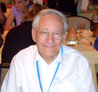 Swiss physical chemist and Nobel laureate Richard R. Ernst.